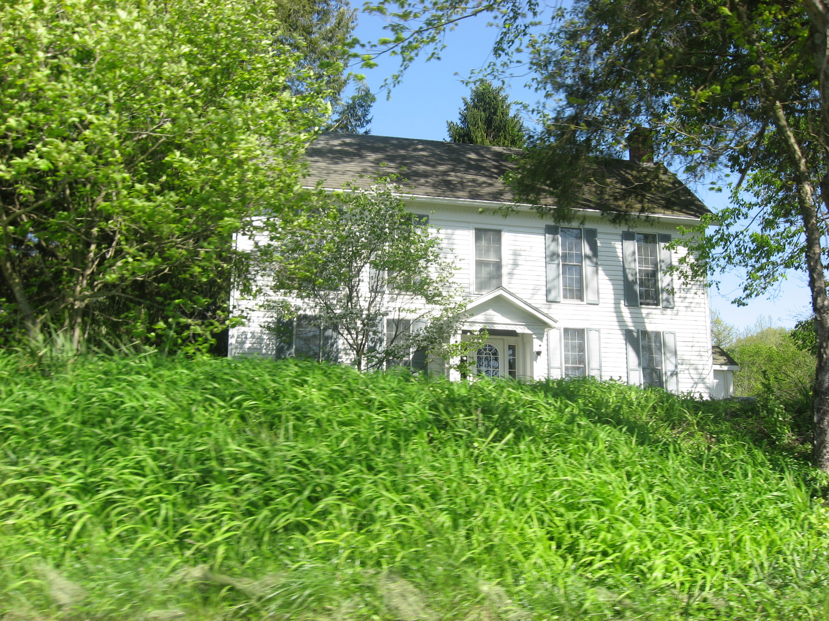 Front of the McNeely House, located at 6680 Bottom Road northeast of Ellettsville at Modesto in Washington Township, Monroe County, Indiana, United States. Built in 1881, it combines the design of an I-house with some elements of the styling of Greek Revival architecture.